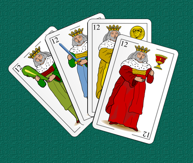 example of a good combination of cards in the Spanish card game "el mus": 4 kings or in slang, the drove